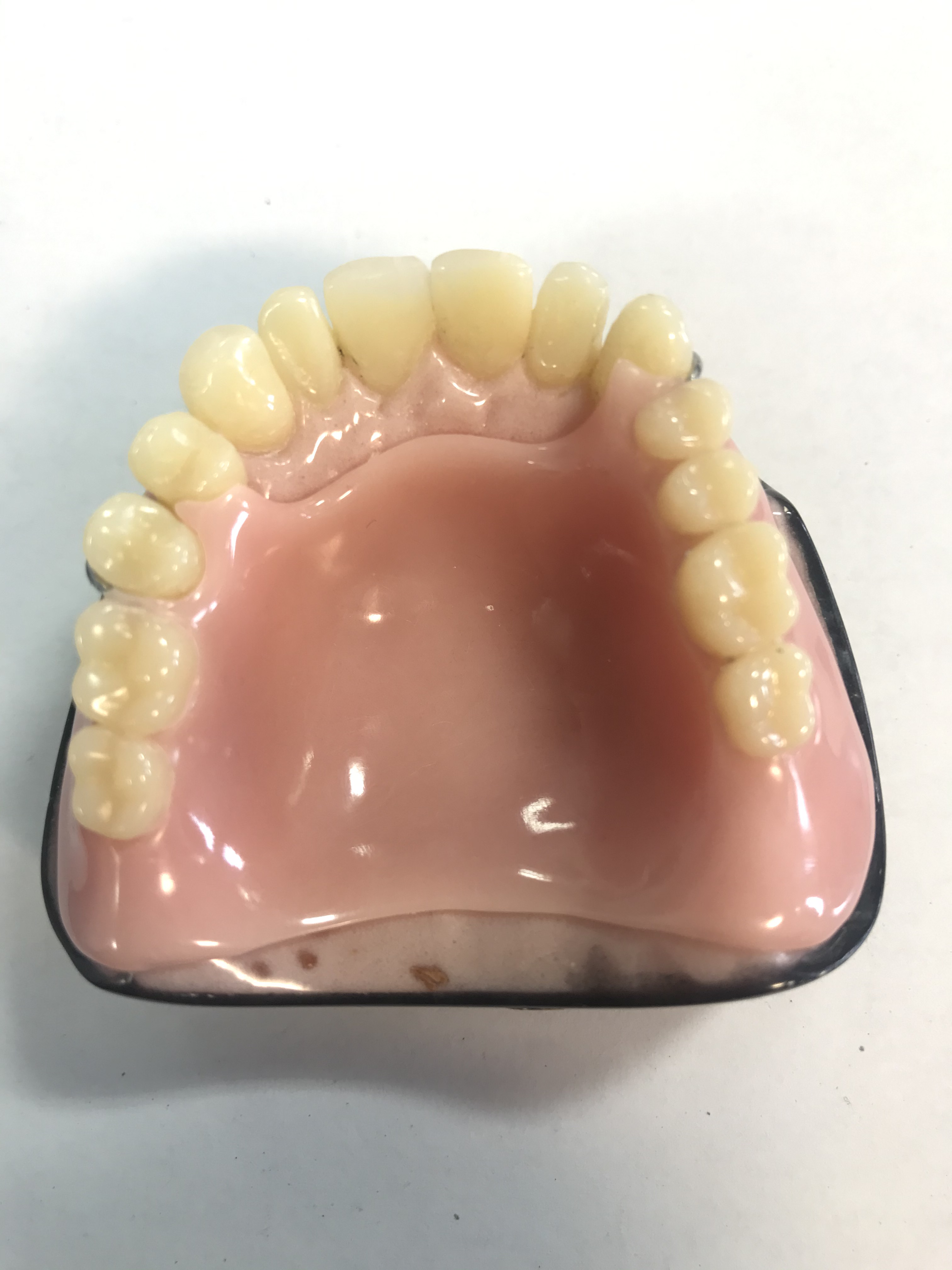 The image shows a denture plate.